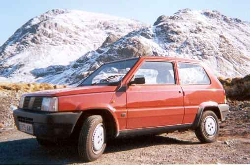 1989 Mk2 FIAT Panda at the Three Sisters, Glencoe, Scotland